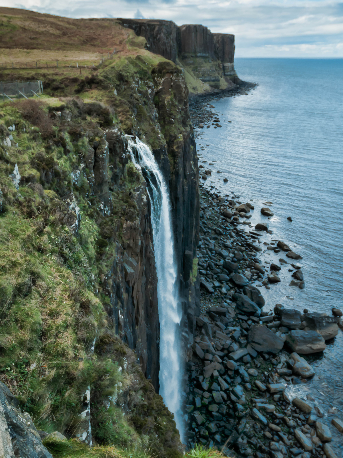 The waterfall at Kilt Rock, Isle of Skye, Scotland